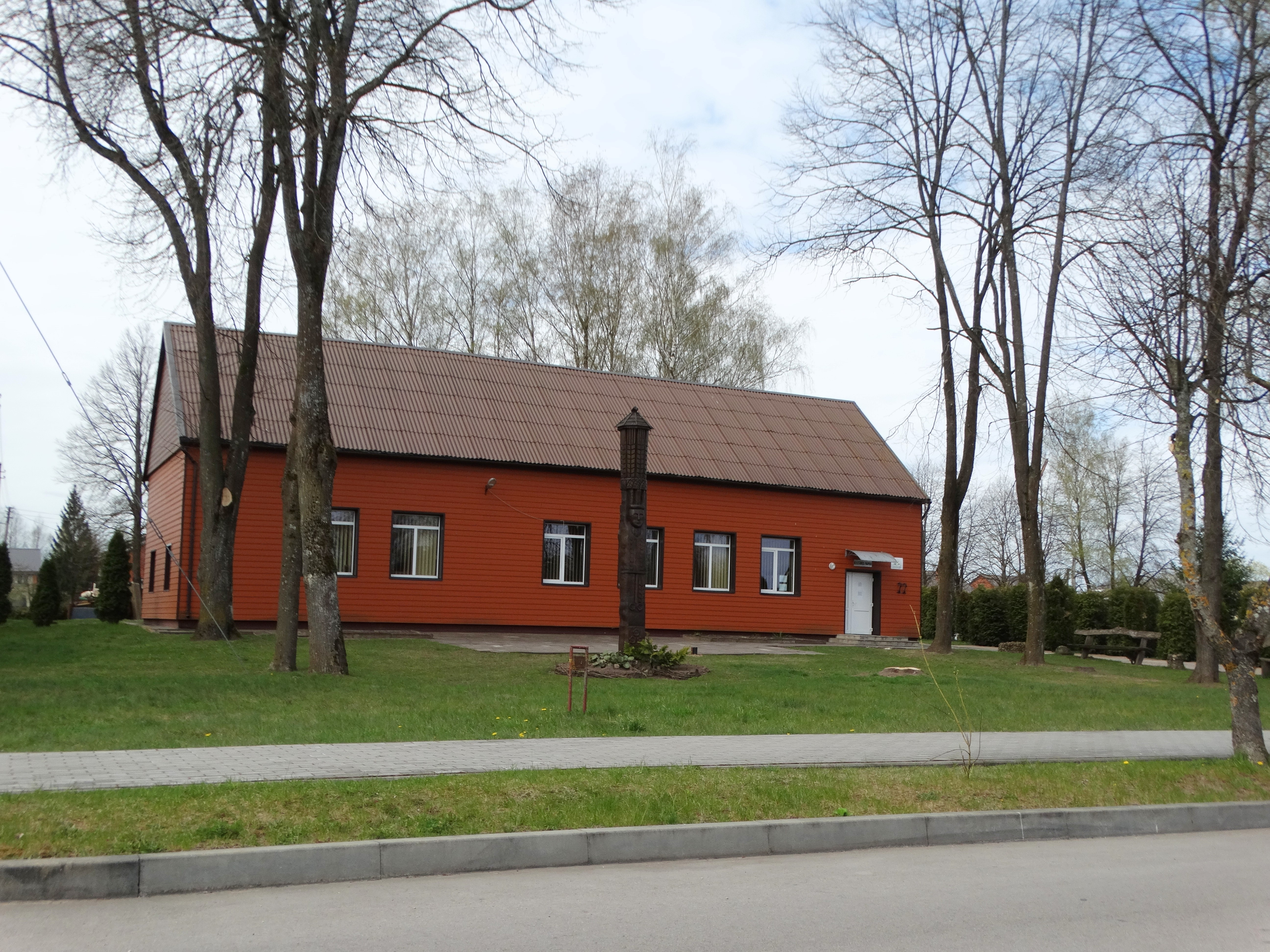 Baltrušaičiai, Tauragė district, Lithuania